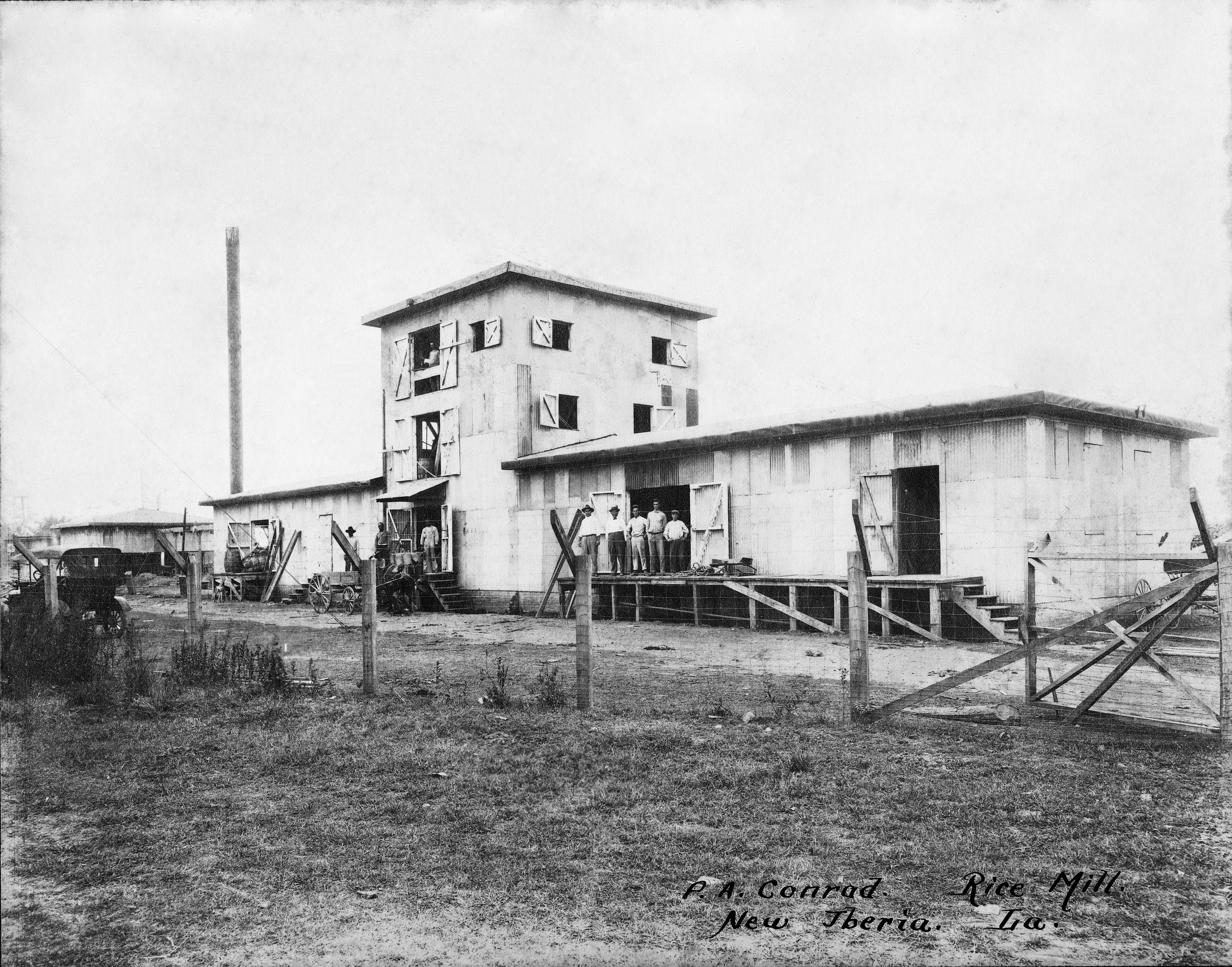 A photo of the Conrad Rice Mill in New Iberia, Louisiana the year after its construction in 1912.